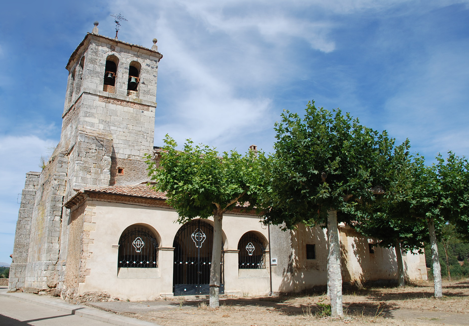 Church of Saint Andrew in Revilla de Collazos (Palencia, Castile and León).